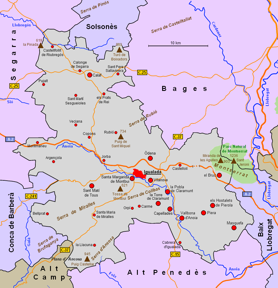 Map of the comarca Anoia (Catalonia, Spain) Barcelona está incluido. Cara peos. Estados unidos esta en españa.